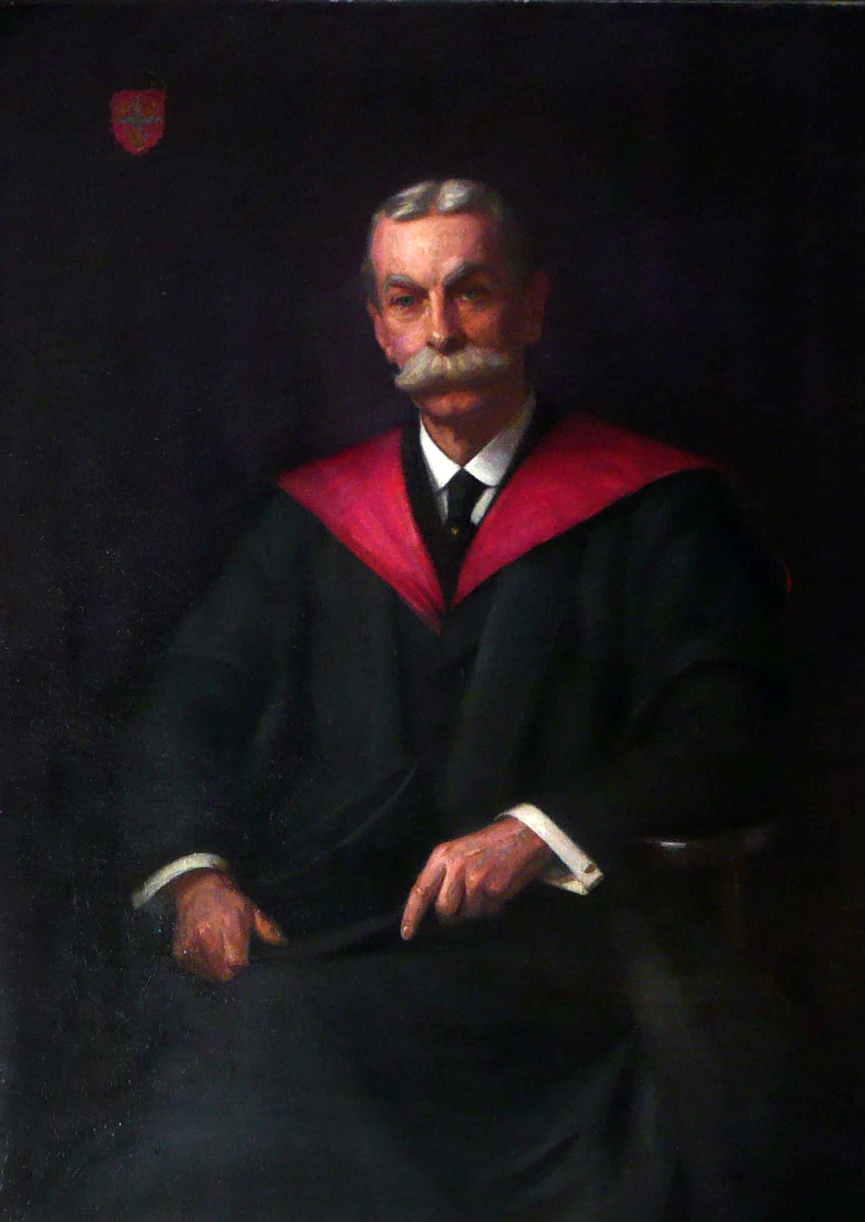 A painting of Percy Shaw Jeffrey, headmaster and academic, presented to him on his retirement; it shows him sitting in his robes, with the badge of the borough of Colchester in the background. Originally, a replica was to be hung in the school hall;it was, however, the replica that was taken by Shaw Jeffrey and the original hung in the school, where it remains.